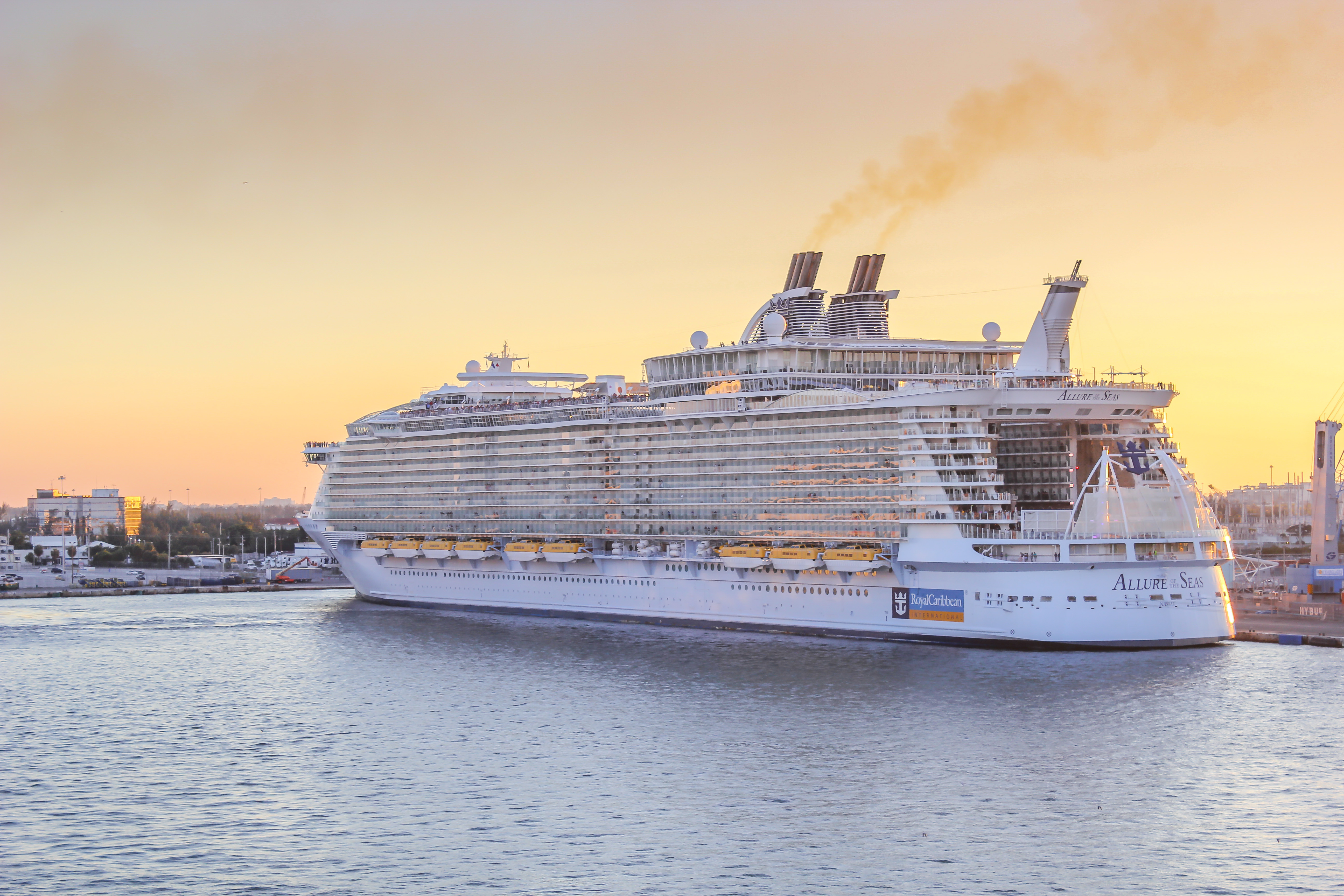 Allure of the Seas in Fort Lauderdale